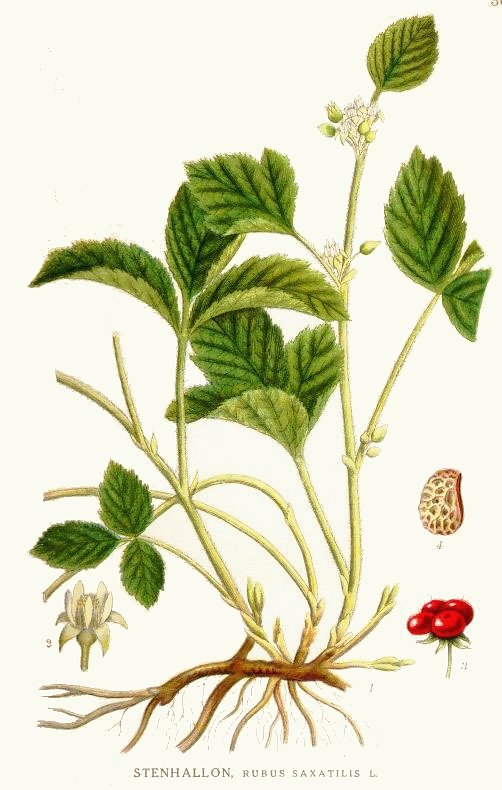 Rubus saxatilis L. Original Description Stenhallon, Rubus saxatilis L.